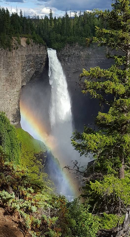 Helmcken Falls clearly showing rainbow